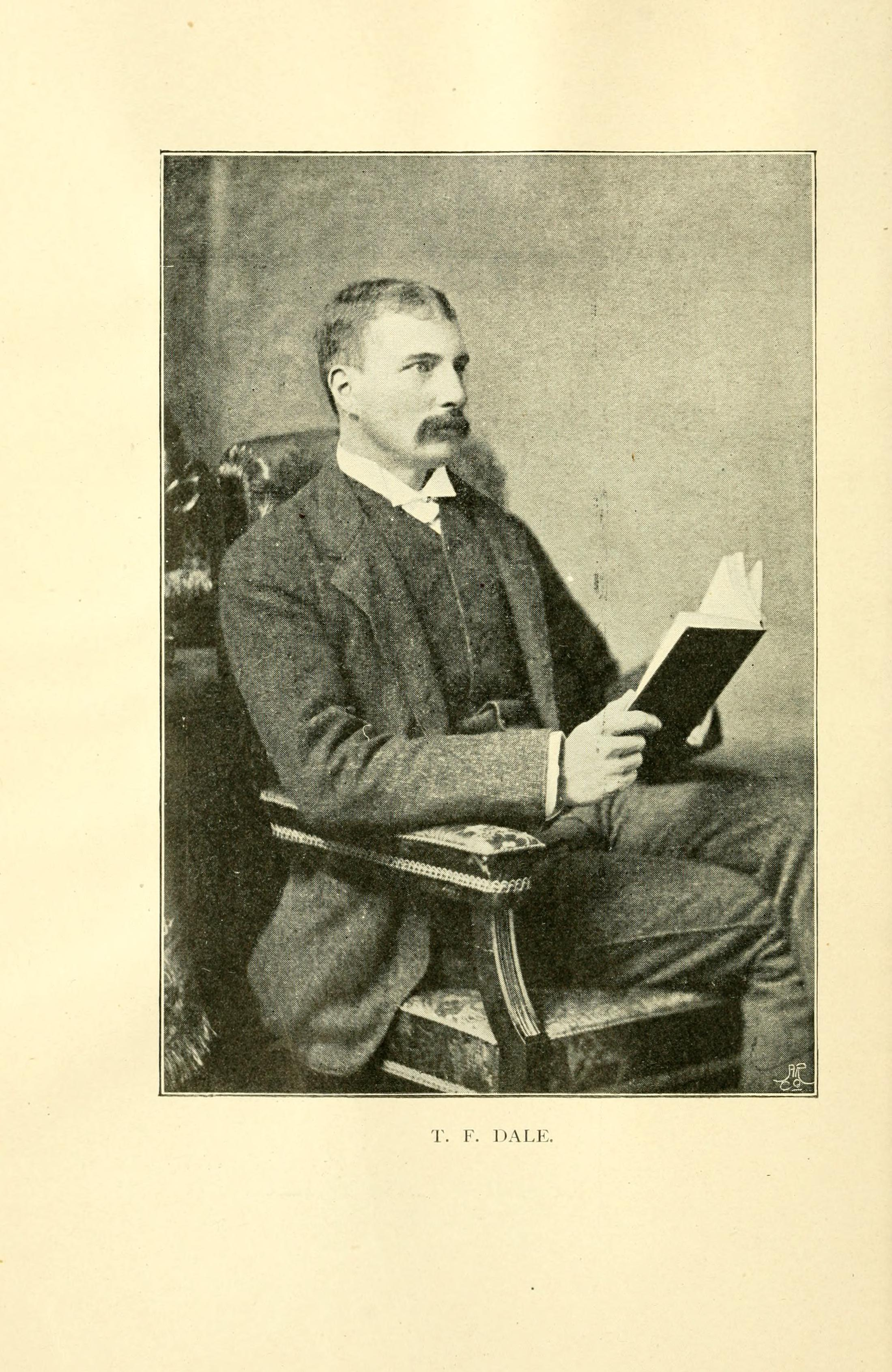 Riding, driving and kindred sports / by T.F. Dale.